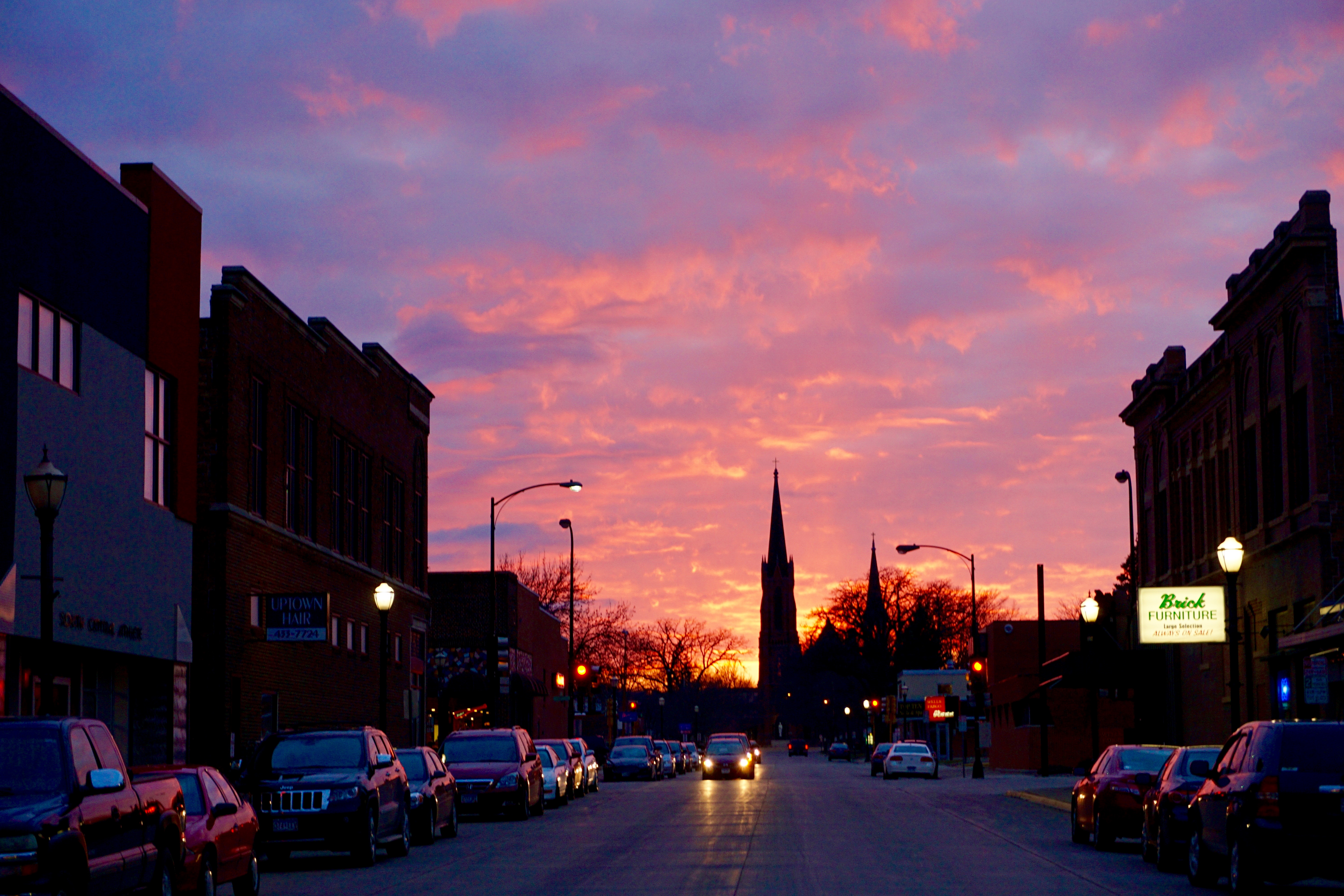 Sunset in downtown Austin, Minnesota, with the spires of St. Augustine's Church silhouetted. March 19, 2016